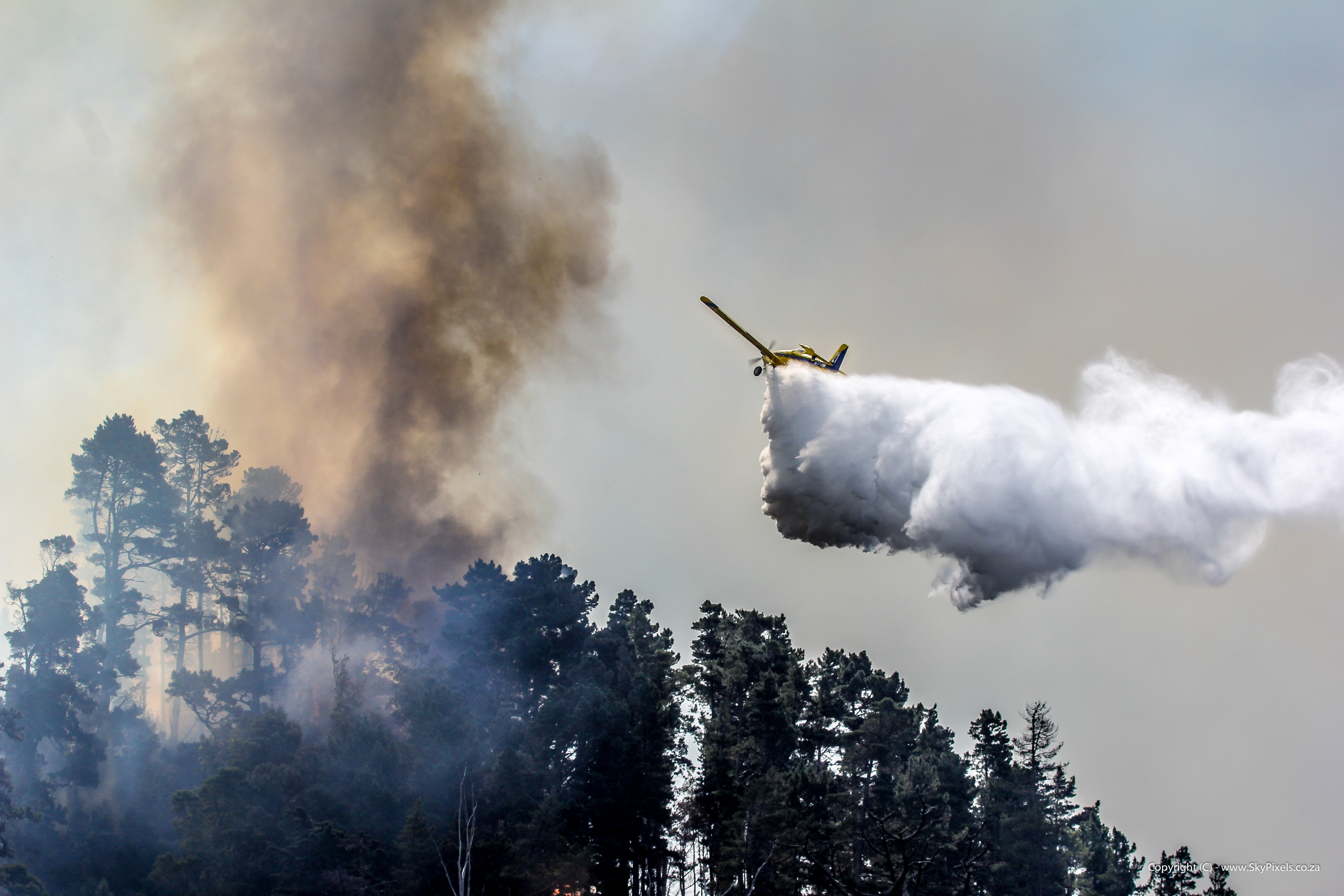 This Picture has been named "Into the Darkness" as the pilot enters the dark smoke to drop the water on the fires below, hoping to emerge alive the other side just to do it again. Some Stats: Approximately 4,000 hectares has been burnt. 198 flying hours have been logged resulting in 2,000 water drops (about 2-million litres of water). The flying hour cost is currently estimated at R2.4-million. An extra 250 Working on Fire volunteers have been dispatched from other provinces to support the ground team. Four helicopters, two water bombers and a spotter plane are involved in firefighting efforts. One firefighter has been hospitalised with burn wounds. 52 frail-care residents of a Noordhoek retirement village were treated for smoke inhalation. Five homes have been damaged along Silvermine Road in Noordhoek. (The Tintswalo Lodge at the foot of Chapman’s Peak was damaged as well.) At least 30 households were evacuated in Noordhoek, as well as residents of the San Michelle Old-Age Home and the Noordhoek Manor Retirement Village (the latter have since been able to return). Three mass care centres have been set up to accommodate those who have been displaced: at the Dutch Reformed Church in Kommetjie Road, Fish Hoek; at the Dutch Reformed campsite in Noordhoek; and at the Fish Hoek Community Hall. Please call 107 from a landline and 021 480 7700 from a cellphone to report any emergency. - See more at